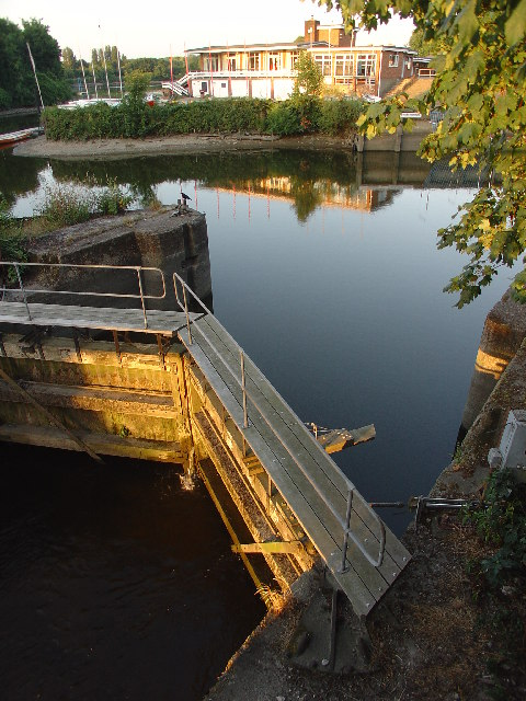 Thames Young Mariners. This lock gates keeps the water in the 10 acre lake, formerly a gravel pit, at Ham between Richmond and Kingston